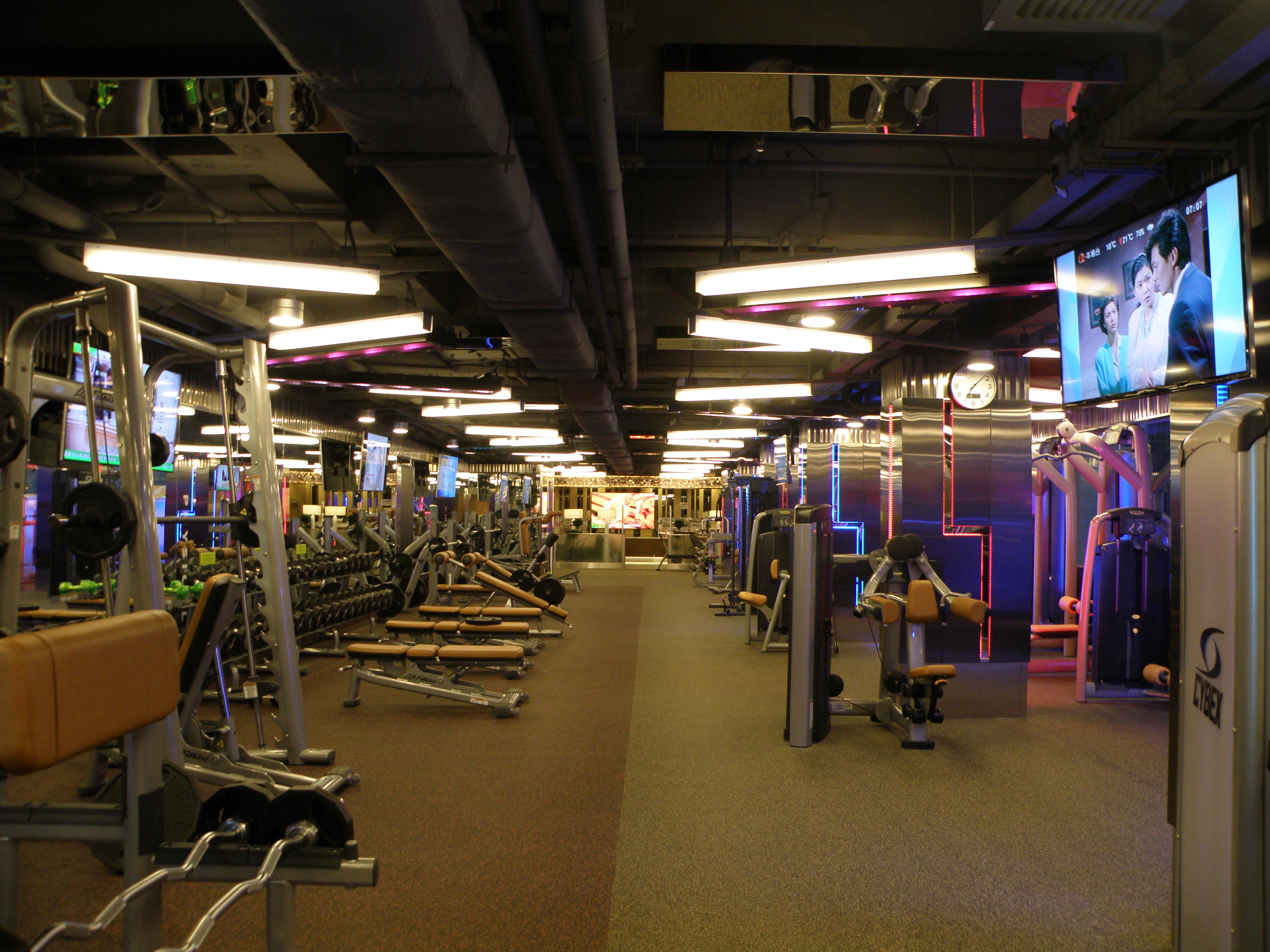 Physical Fitness Kennedy Town branch, Hong Kong.